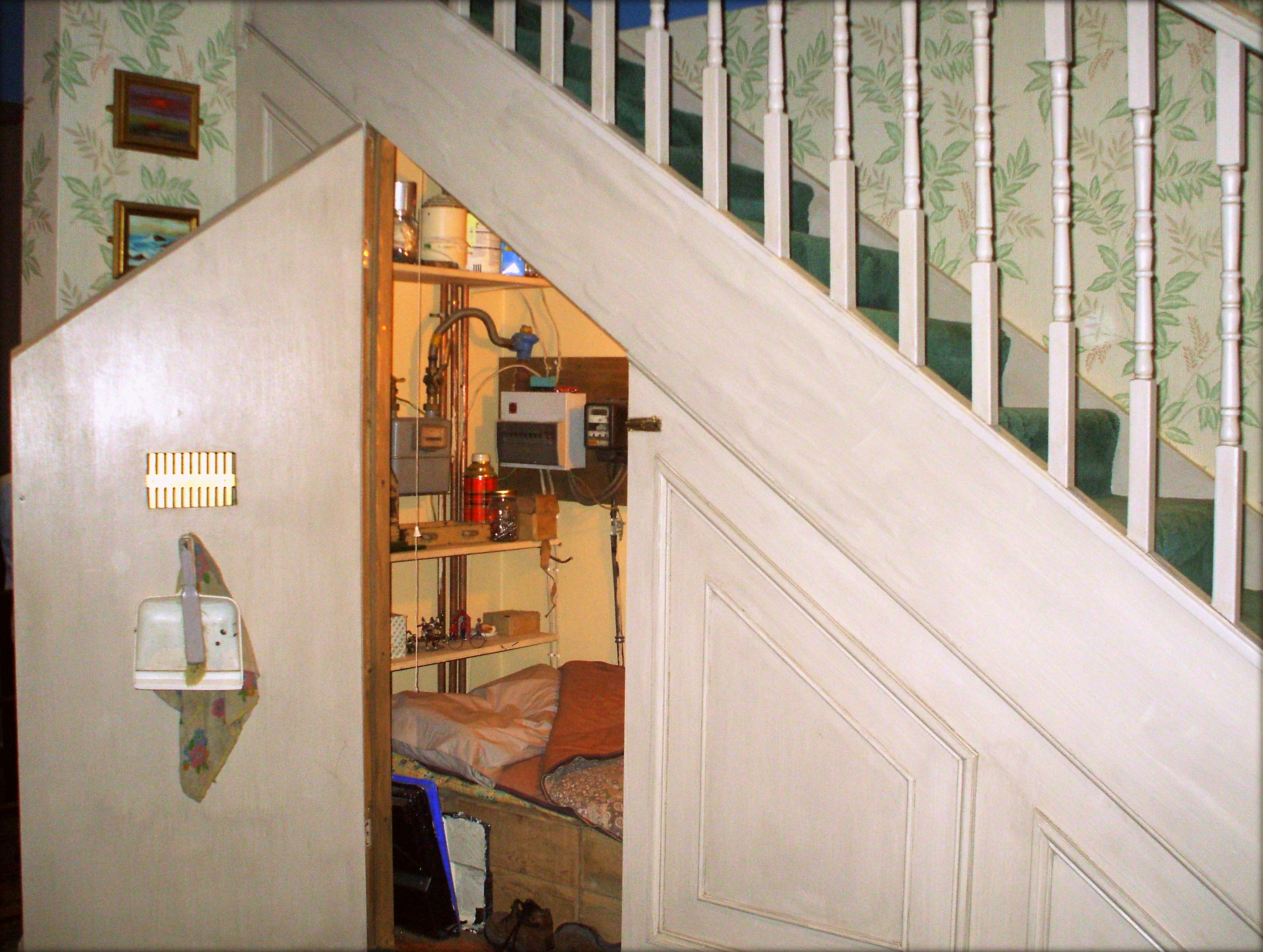 Under the stairs, No 4 Privet Drive, Little Whinging. Harry Potter's house set at Warner Bros. Studios, Leavesden, UK